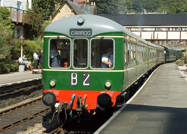 Wickham Class 109 at Llangollen Station. Photographed during the Llangollen Railcar Gala weekend, 16-17 July 2005.